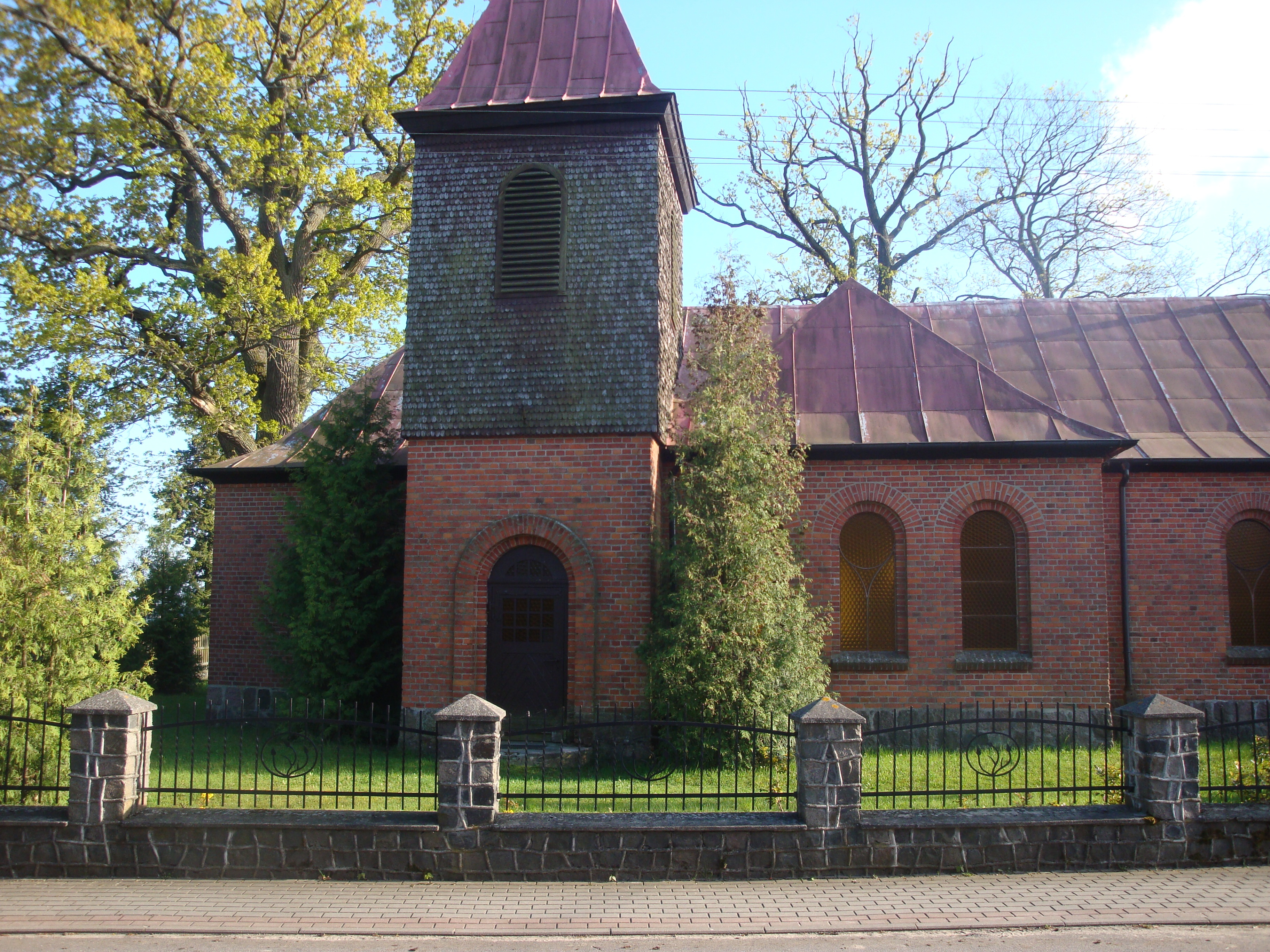 Church ss Peter and Paul in Piława (westpomeranian voivodeship, Poland)